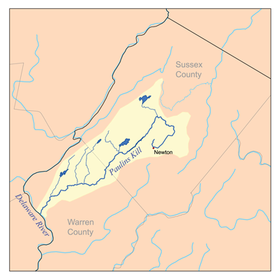 This is a map of the Paulins Kill Watershed. I, Karl Musser, created it based on USGS data.